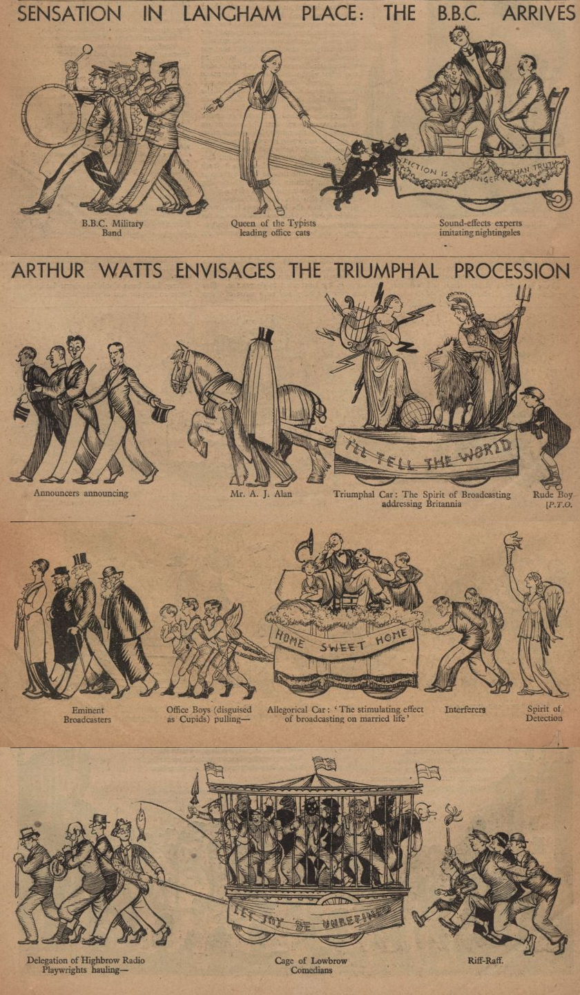 'Sensation in Langham Place: the BBC arrives', composite of a four-part cartoon by Arthur Watts, from the Christmas 1931 edition of the Radio Times; printed at the foot of pages 912-915.